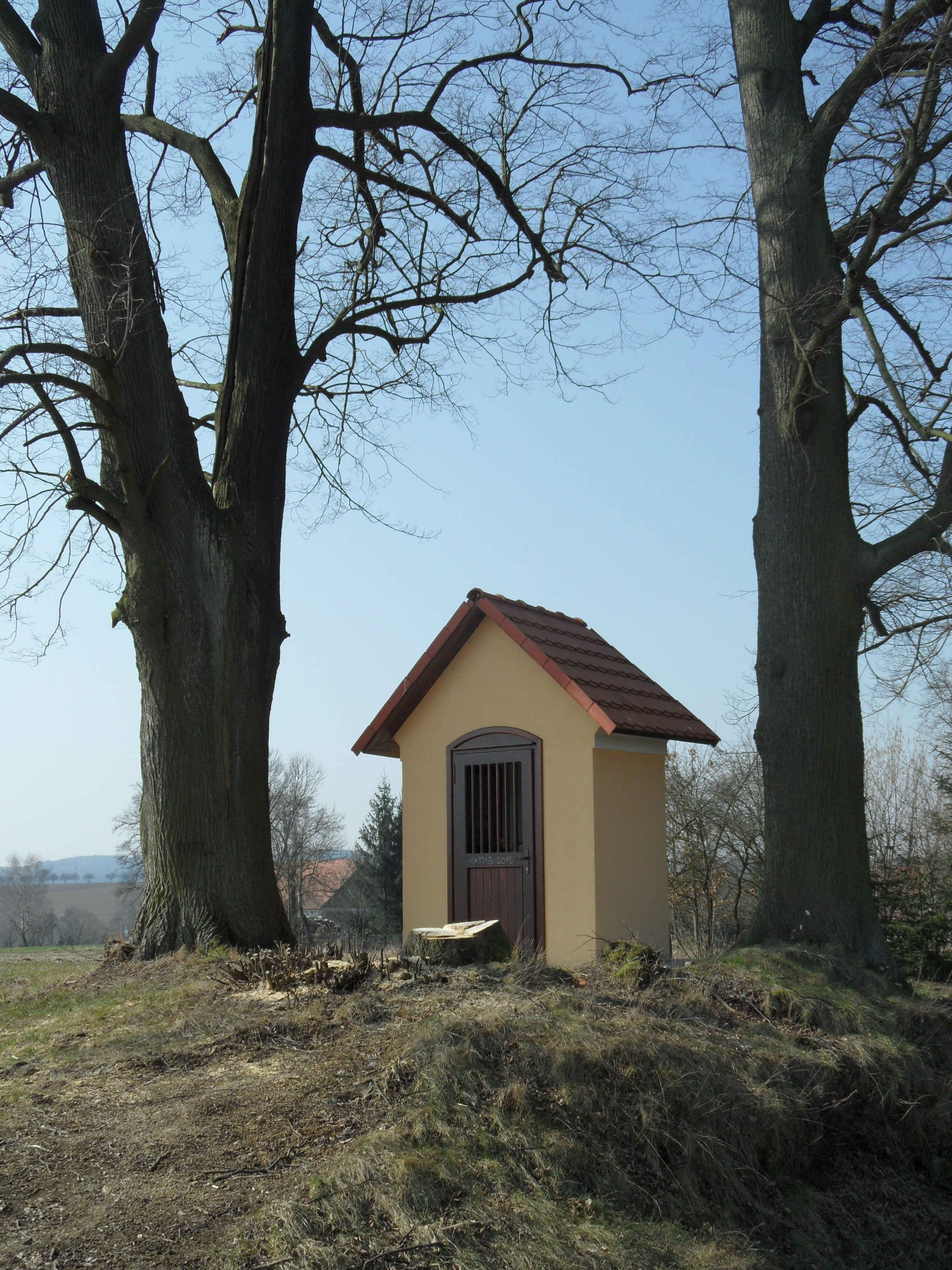 Štěpánov (Leština u Světlé) K. Chaple Surrounded by Trees. Havlíčkův Brod District, the Czech Republic.